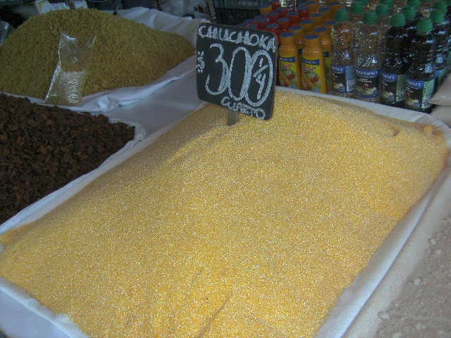 Bulk chuchoca for sale at a fair in La Florida, Chile. Chuchoca is coarsely-ground maize (corn), precooked and sun-dried; it is similar to semolina in color and texture. It is common in kitchens of those with Andean heritage.